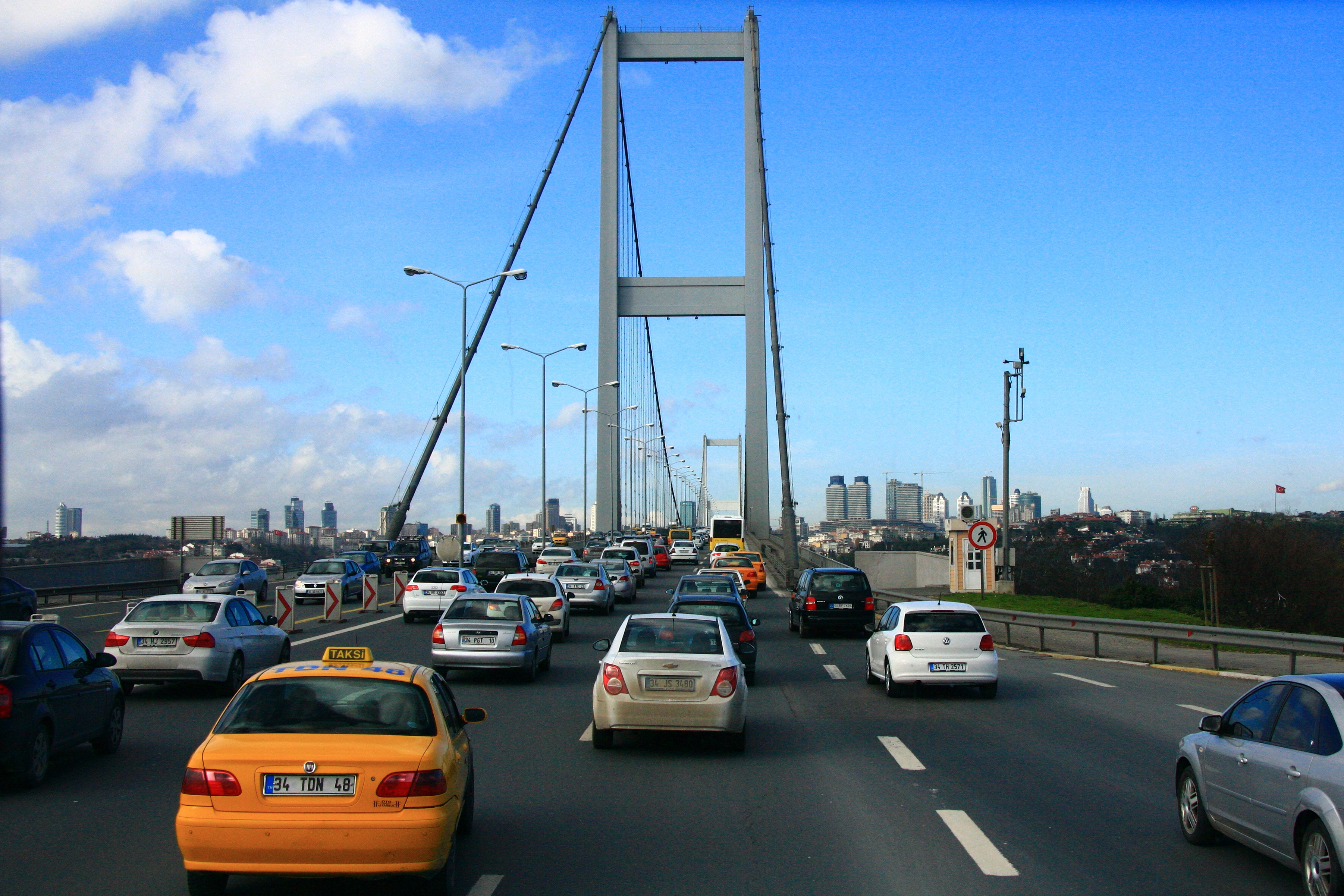 The Bosphorus Bridge